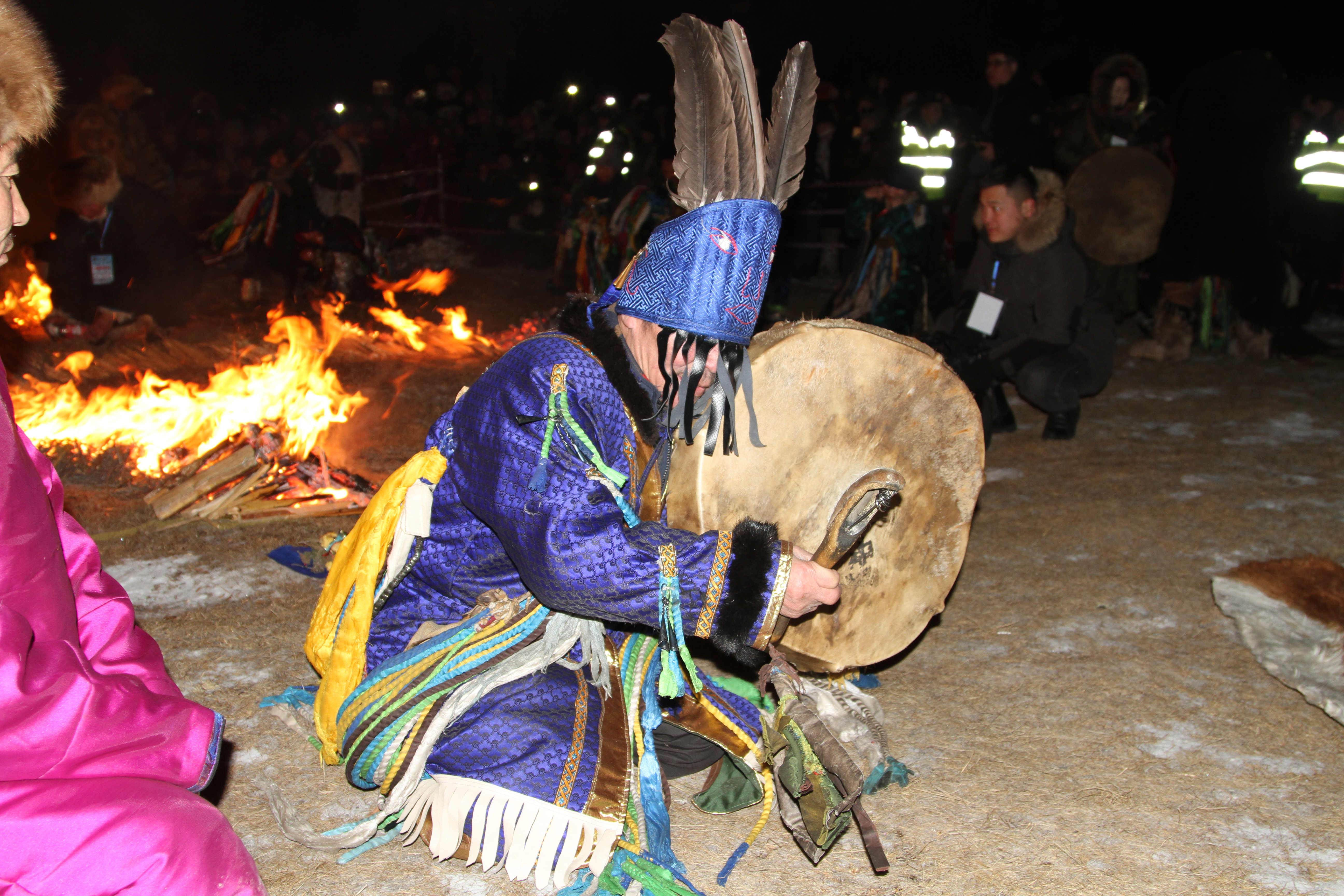 The Mongolian Shaman, during Khovsogol lake fire worship rituals. Picture was taken at 3rd March 2019 in Khovsgol Aimag, Mongolia.